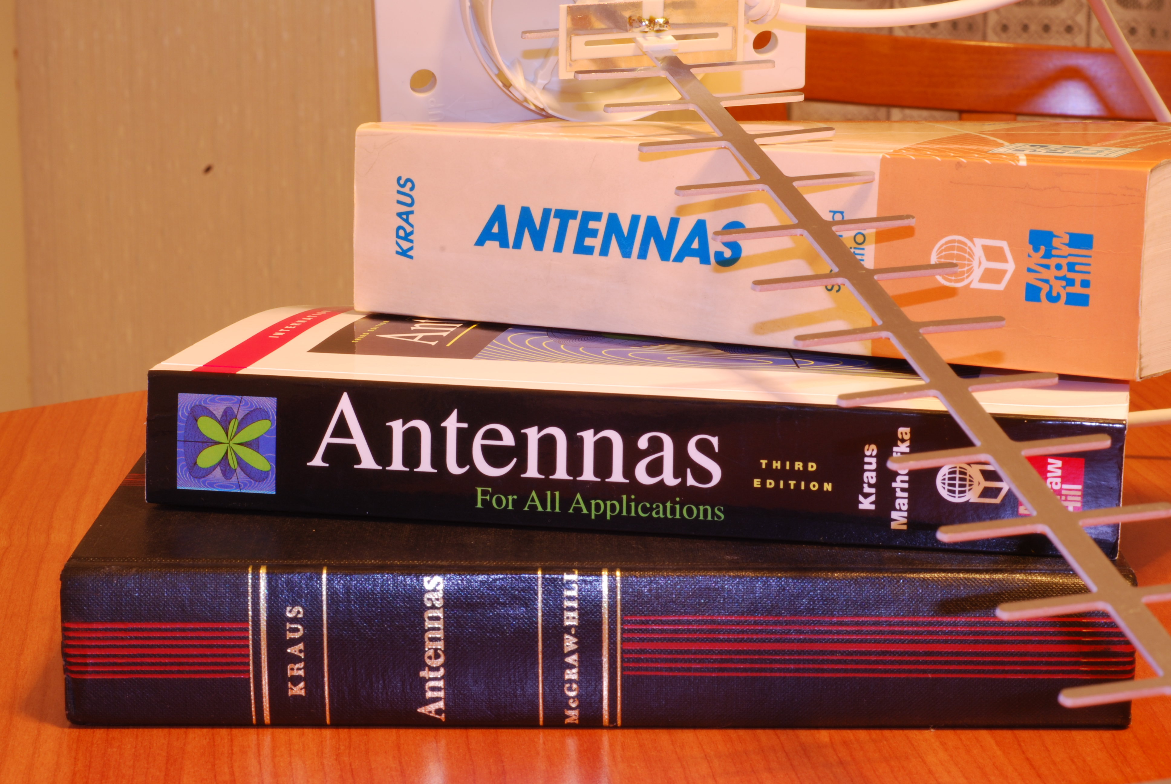 wifi yagi antenna and 1st, 2nd and 3rd editions of Antennas books from Jon Kraus, W8JK